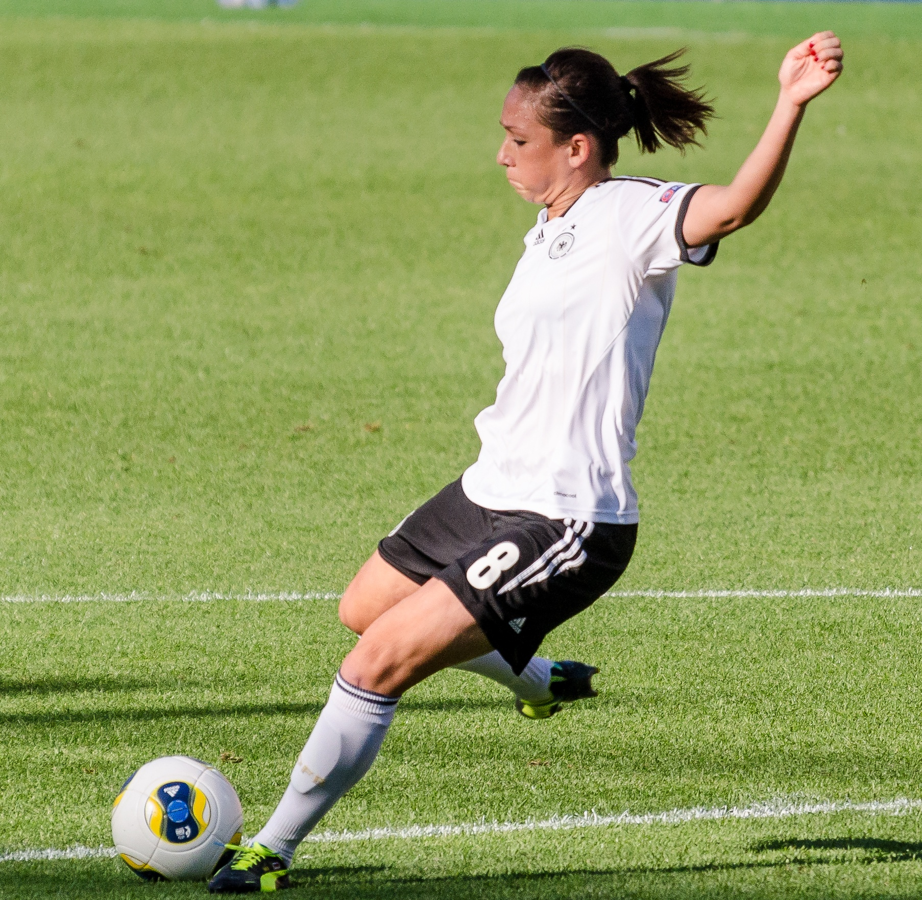 German football midfielder Nadine Keßler playing the quarter final against Italy in the UEFA Women's Euro 2013 at Myresjöhus Arena in Växjö.